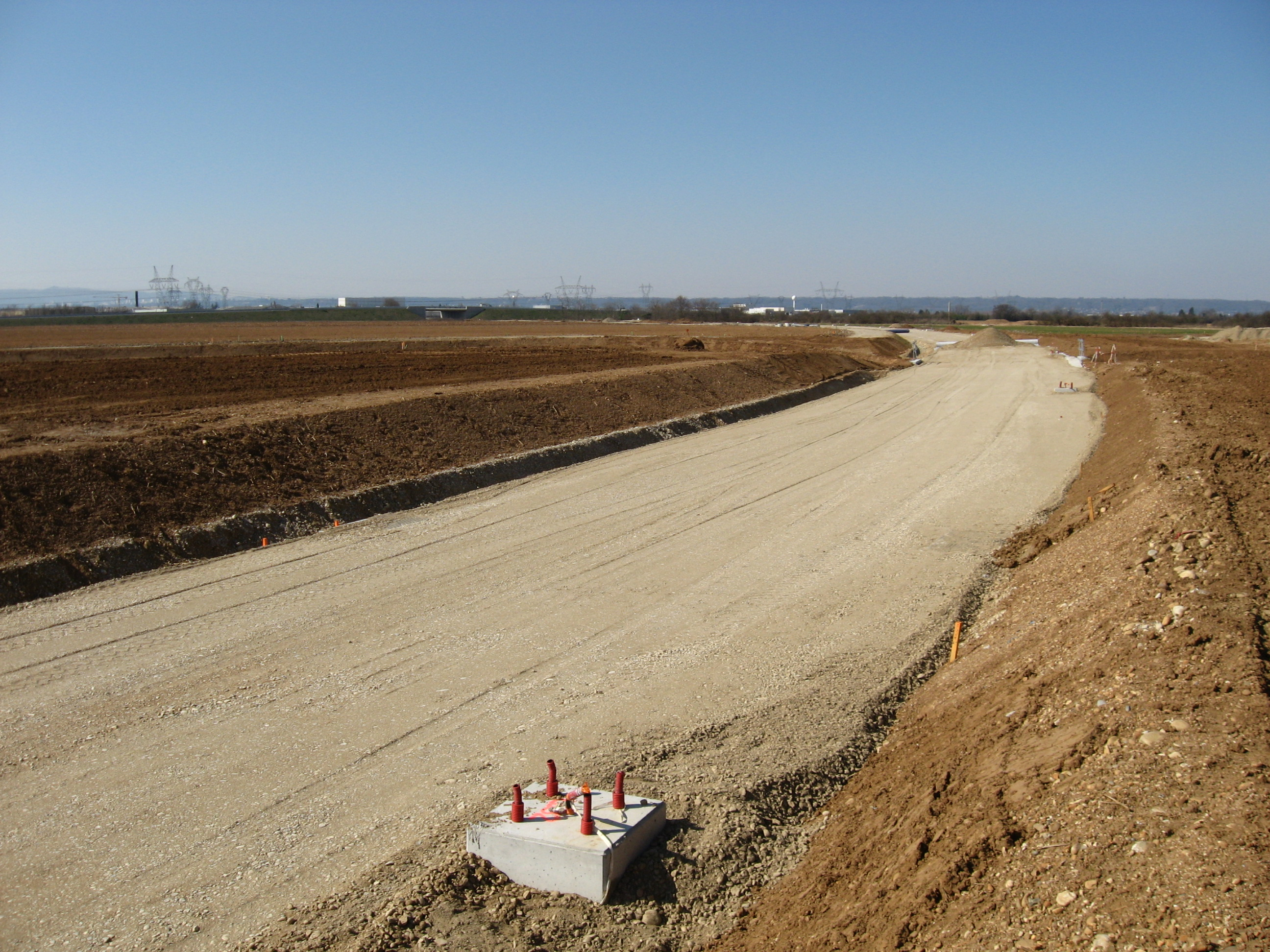 Leslys tramline seen in the direction off Meyzieu. The line goes under the bridge, where the disused CFEL railway line ran.